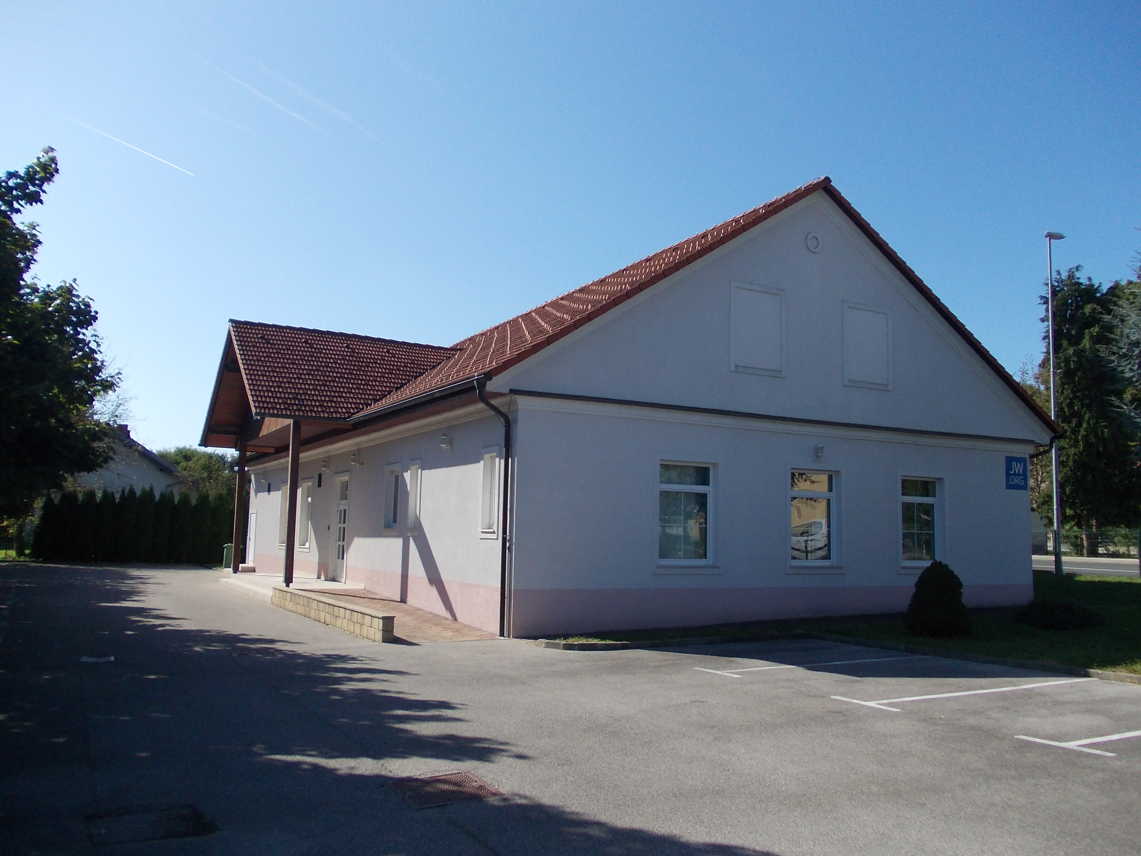 Kingdom Hall of Stari Grad